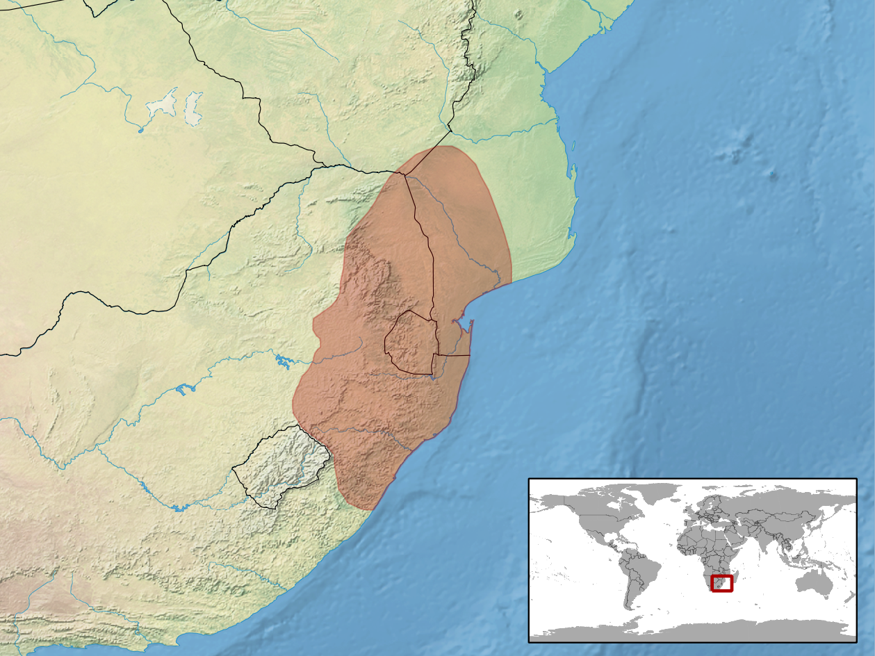 geographic distribution of Pachydactylus vansoni (Native: Mozambique; South Africa (Free State, KwaZulu-Natal, Limpopo Province, Mpumalanga); Swaziland; Zimbabwe)